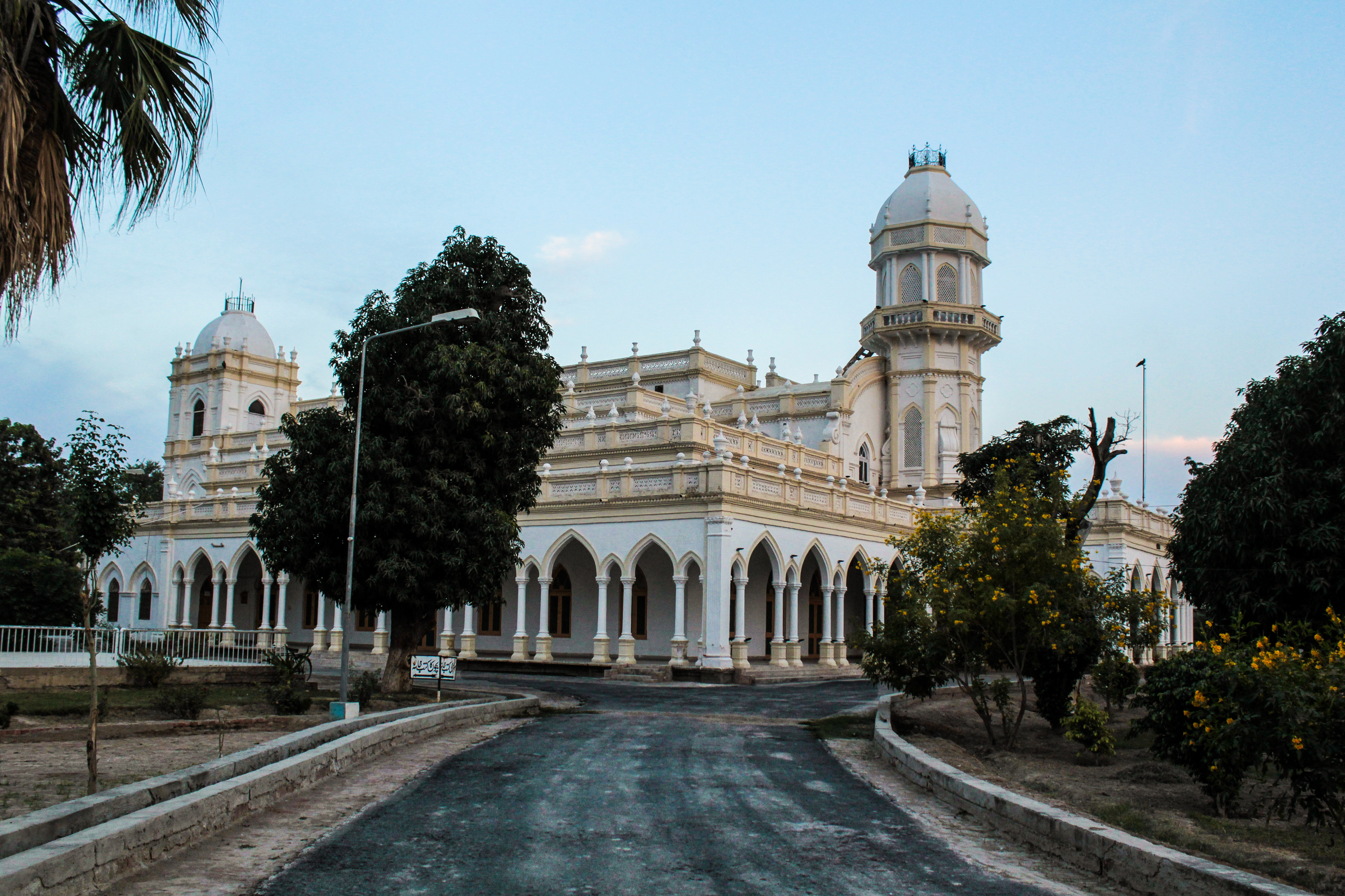 Central Library This is a photo of a monument in Pakistan identified as the PB-U-2